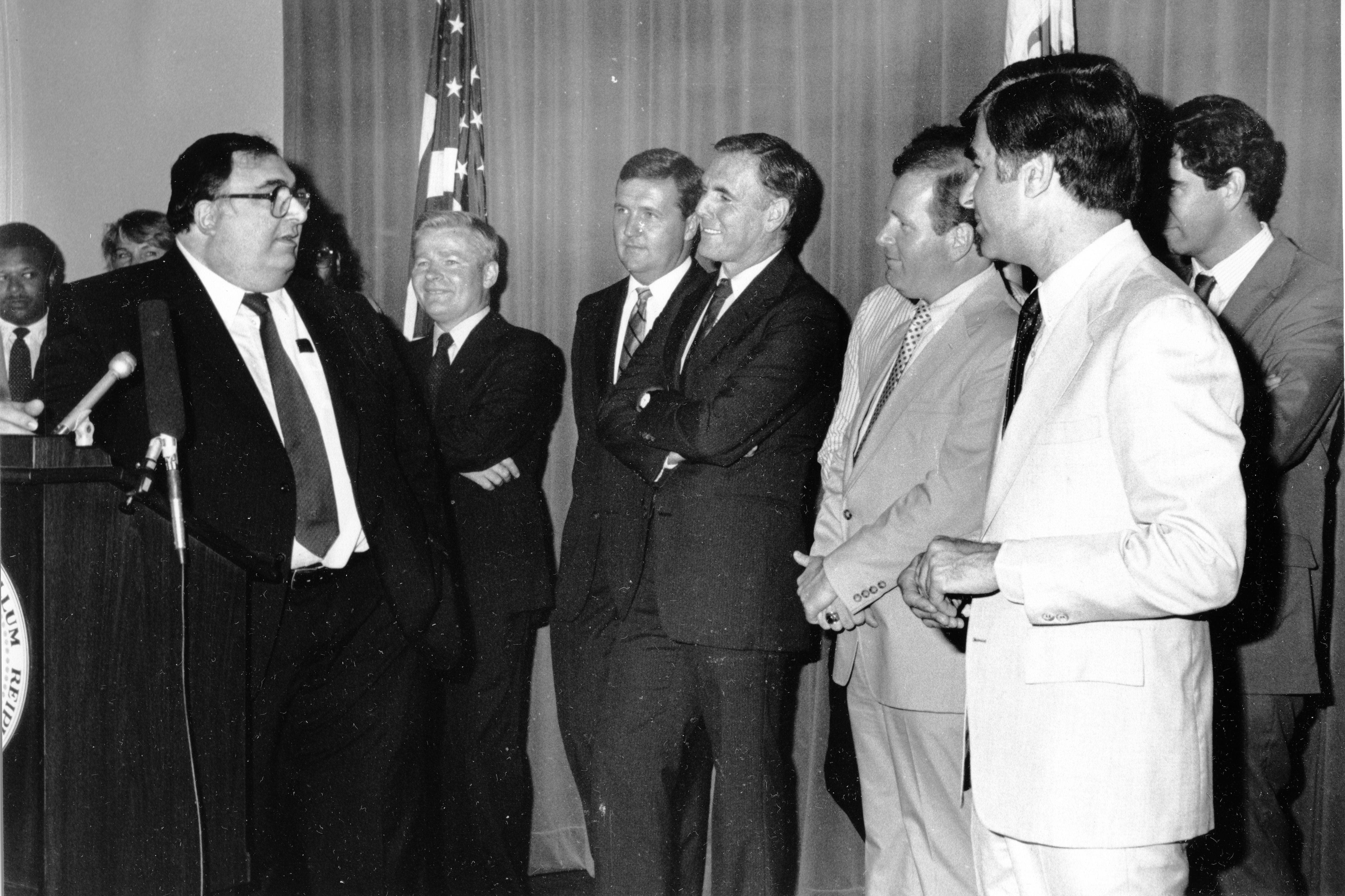 Title: House Speaker George Keverian at podium. Back row Senate President William M. Bulger, State Rep. John McDonough, Mayor Raymond L. Flynn, two unidentified men, State Rep. William Galvin, Governor Michael S. Dukakis Creator: Mayor's Office - City Photographer Date: circa 1984-1987 Source: Mayor Raymond L. Flynn records, Collection #0246.001 File name: RF_011 Rights: Copyright City of Boston Citation: Mayor Raymond L. Flynn records, Collection #0246.001, City of Boston Archives, Boston